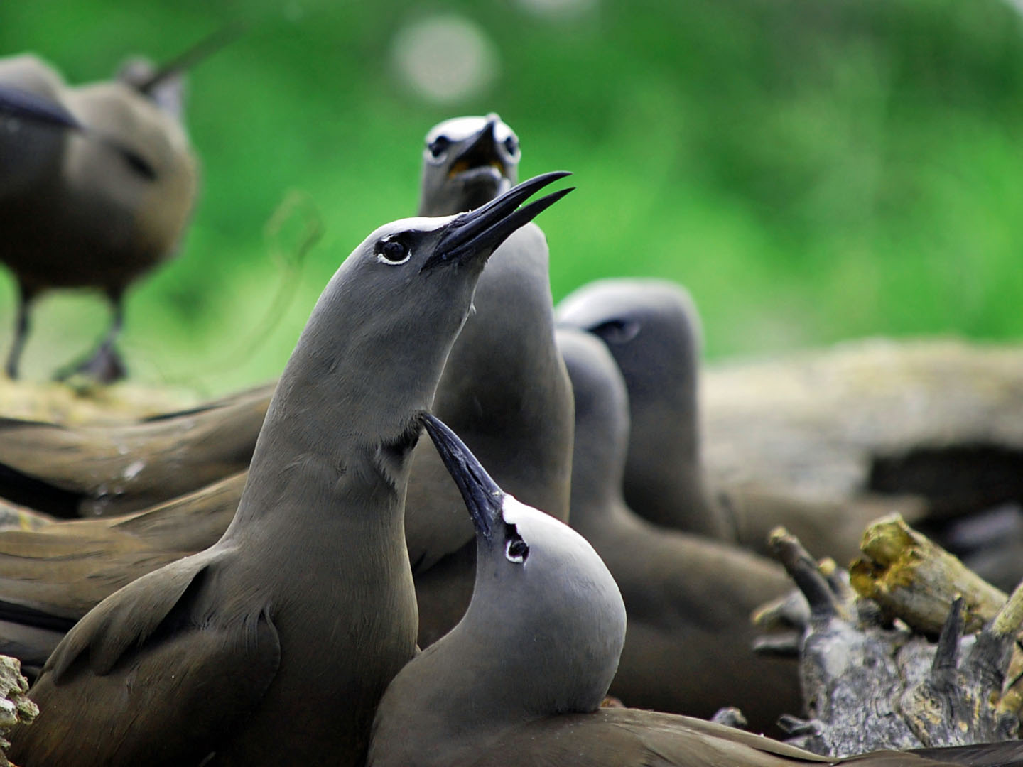 Anous stolidus (Brown Noddies) nesting at the Tubbataha Reef National Park in the Philippines. Photographed in 2012 by Gregg Yan.